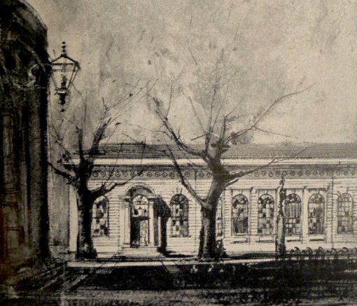 Drawing of the old Cape Parliament building. The dining hall of the Masonic Lodge.